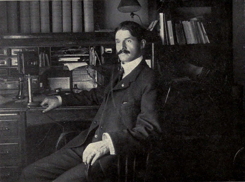 Photograph of Charles A. Baird